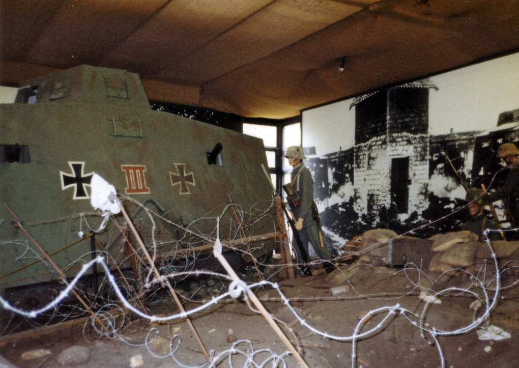 A7V heavy tank at Panzermuseum Munster.